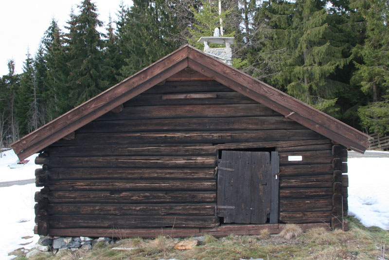 Forge Smithy Smie_Eidsvoll Bygdetun (Open air museums Eidsvoll, Norway)